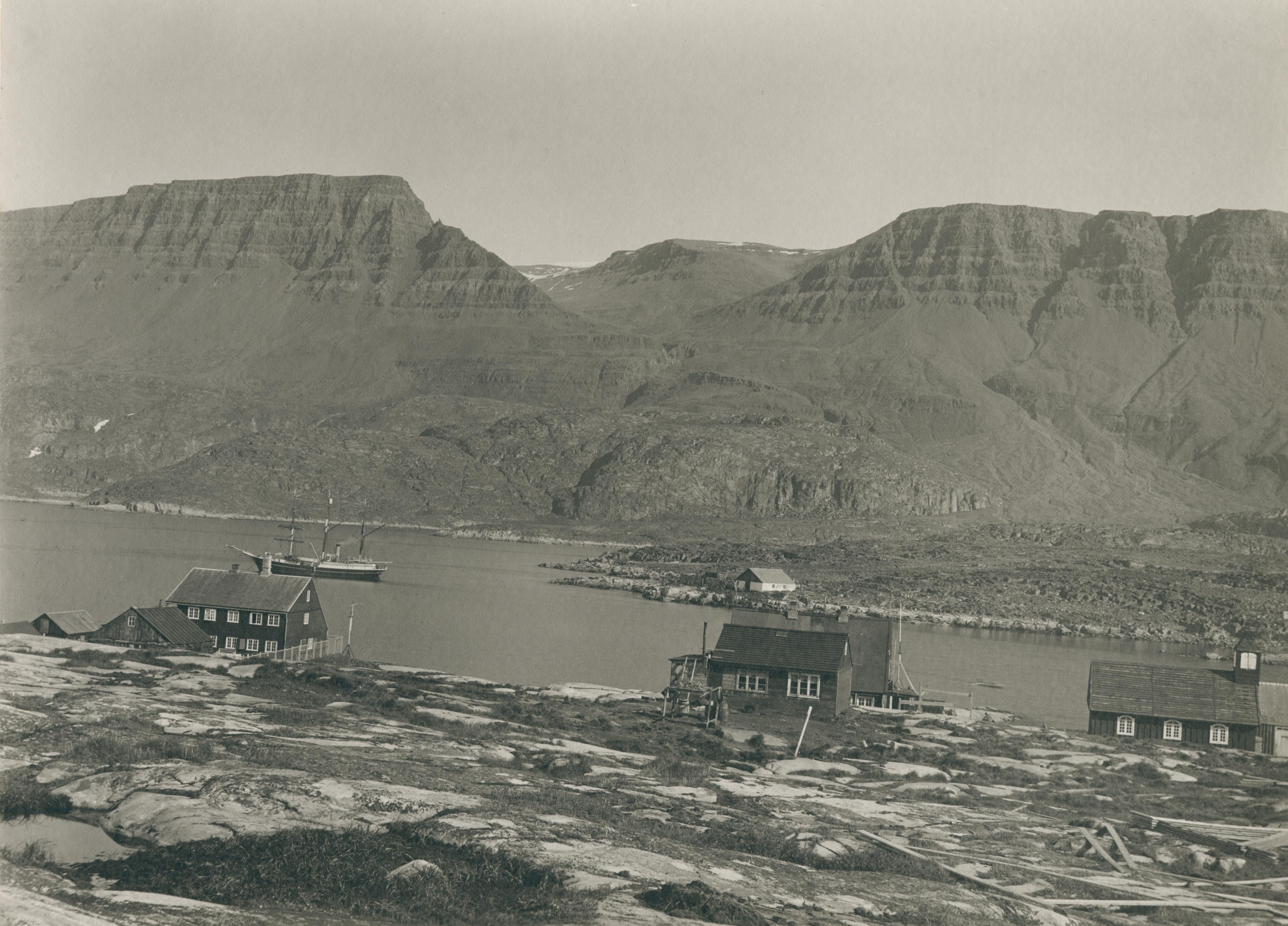 Greenland. The settlement Qeqertarsuaq/Godhavn seen from the South.